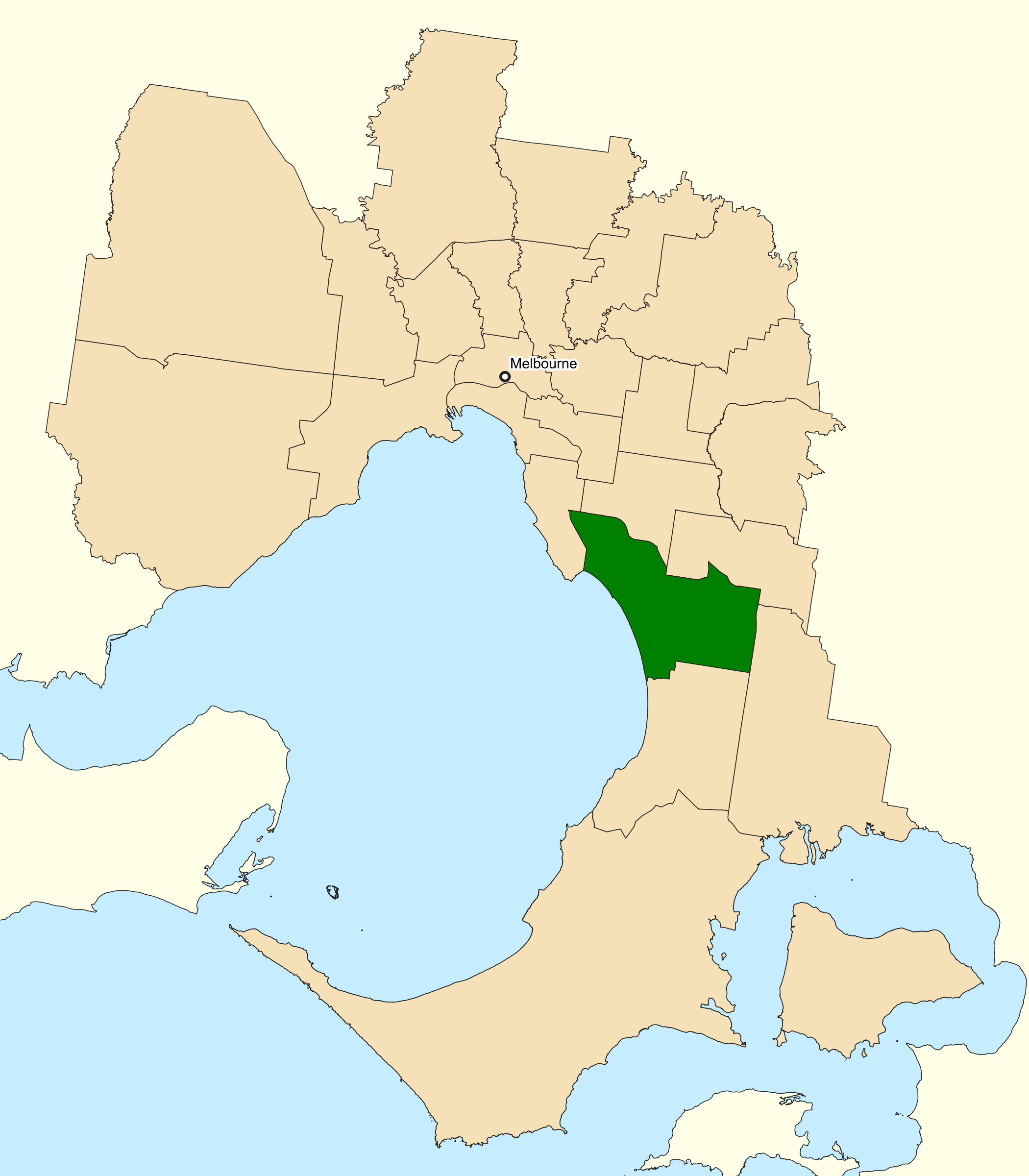 Location of the Australian federal electoral division of Isaacs (dark green) in Greater Melbourne, Victoria as of the 2019 Australian federal election. Incorporates or developed using Administrative Boundaries ©PSMA Australia Limited licensed by the Commonwealth of Australia under Creative Commons Attribution 4.0 International licence (CC BY 4.0).